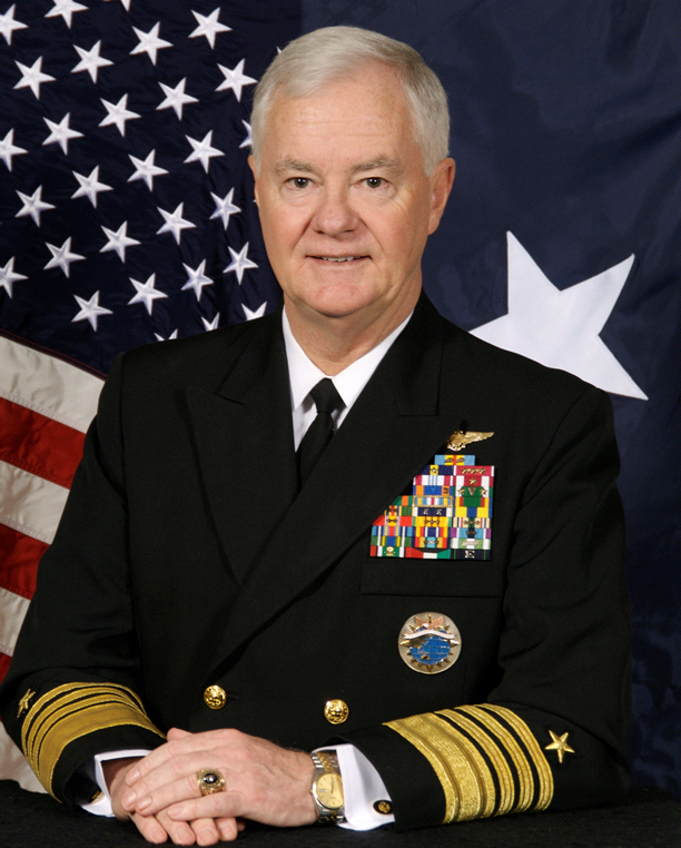 Admiral Timothy J. Keating, Commander US Pacific Command